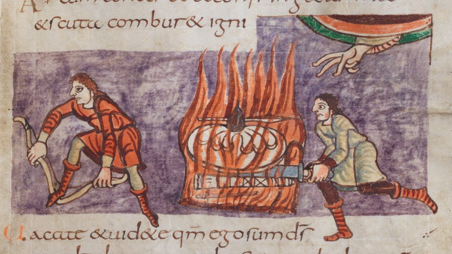 Detail from the Stuttgarter Psalter, fol. 59r.: Illustration of Psalm 45:10 (NIV Ps 46:9): auferens bella usque ad finem terrae arcum conteret et confringet arma et scuta conburet in igne “He makes wars cease to the ends of the earth. He breaks the bow and shatters the spear; he burns the shields [or: chariots] with fire.”